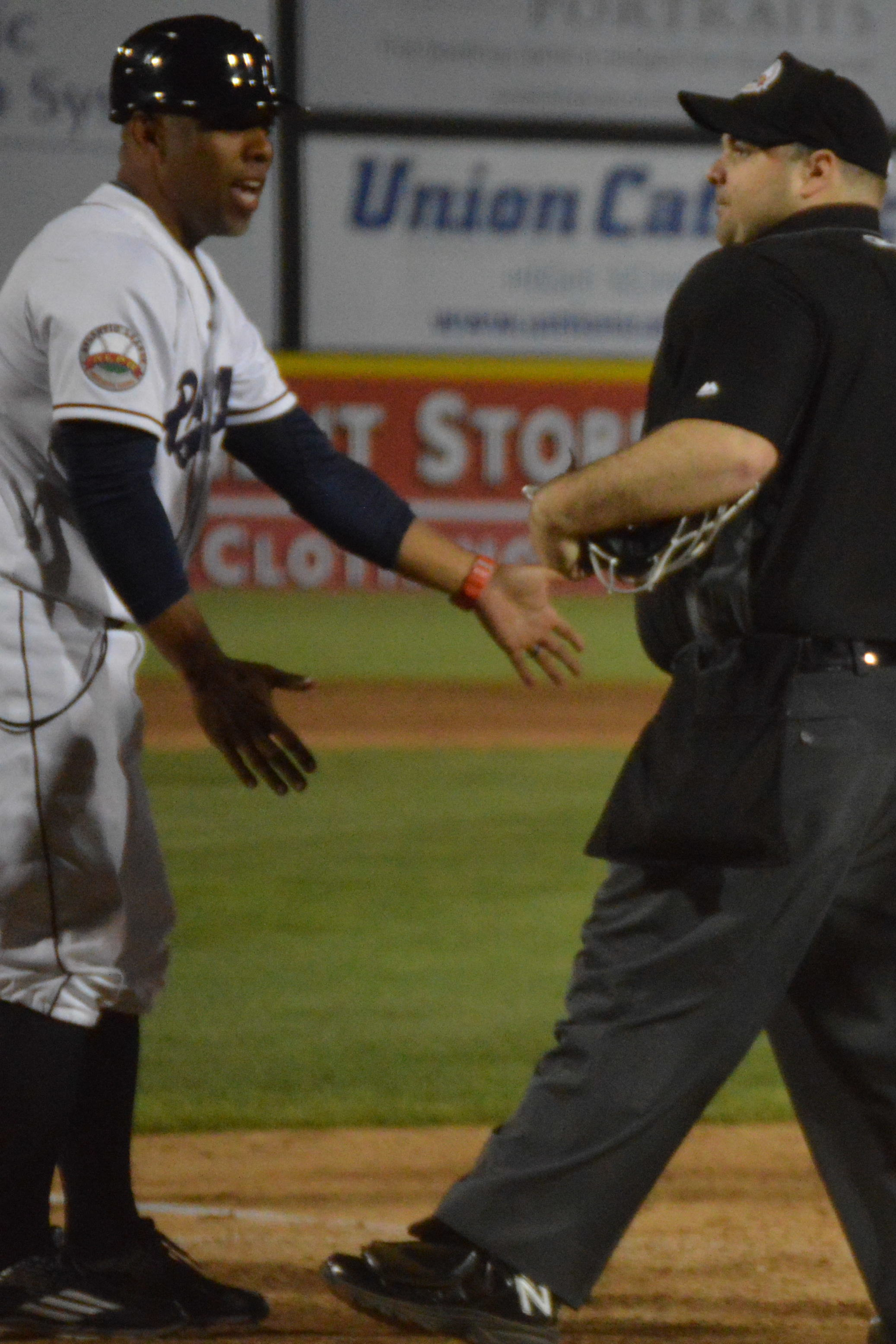 Somerset Patriots manager Brett Jodie and other personnel argue with the home plate umpire during a 2018 game in New Jersey